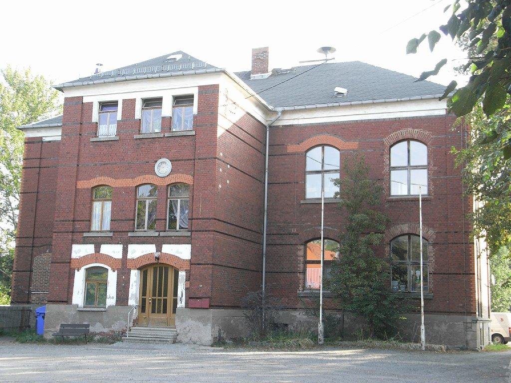 Former school building of Schönfels from the 20th century